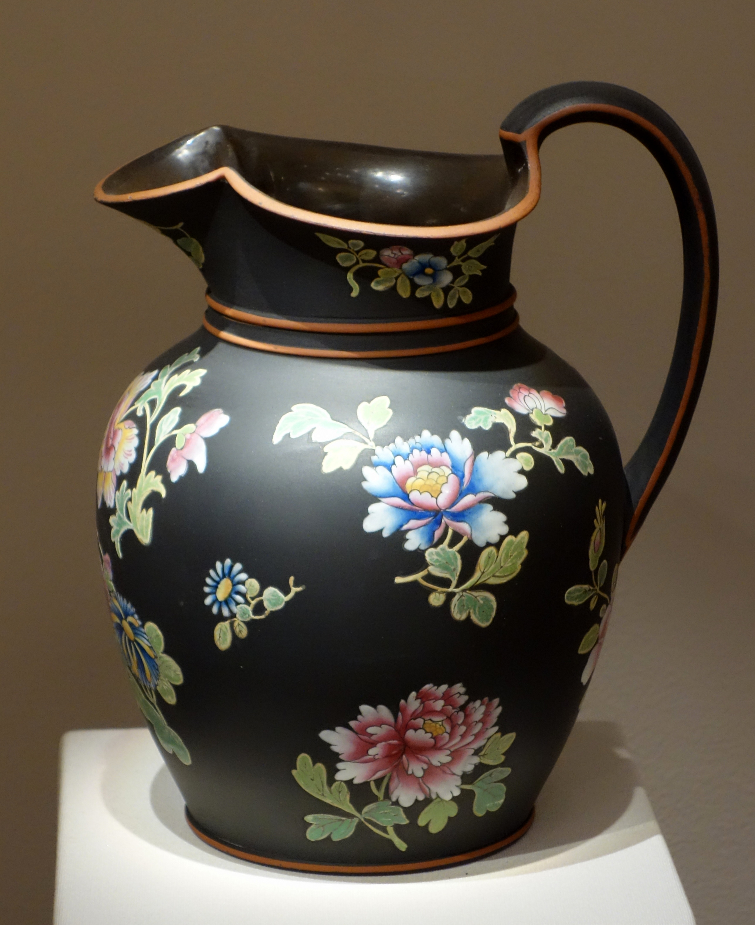 Exhibit in the Chazen Museum of Art, University of Wisconsin-Madison, Madison, Wisconsin, USA. This artwork is old enough so that it is in the public domain.